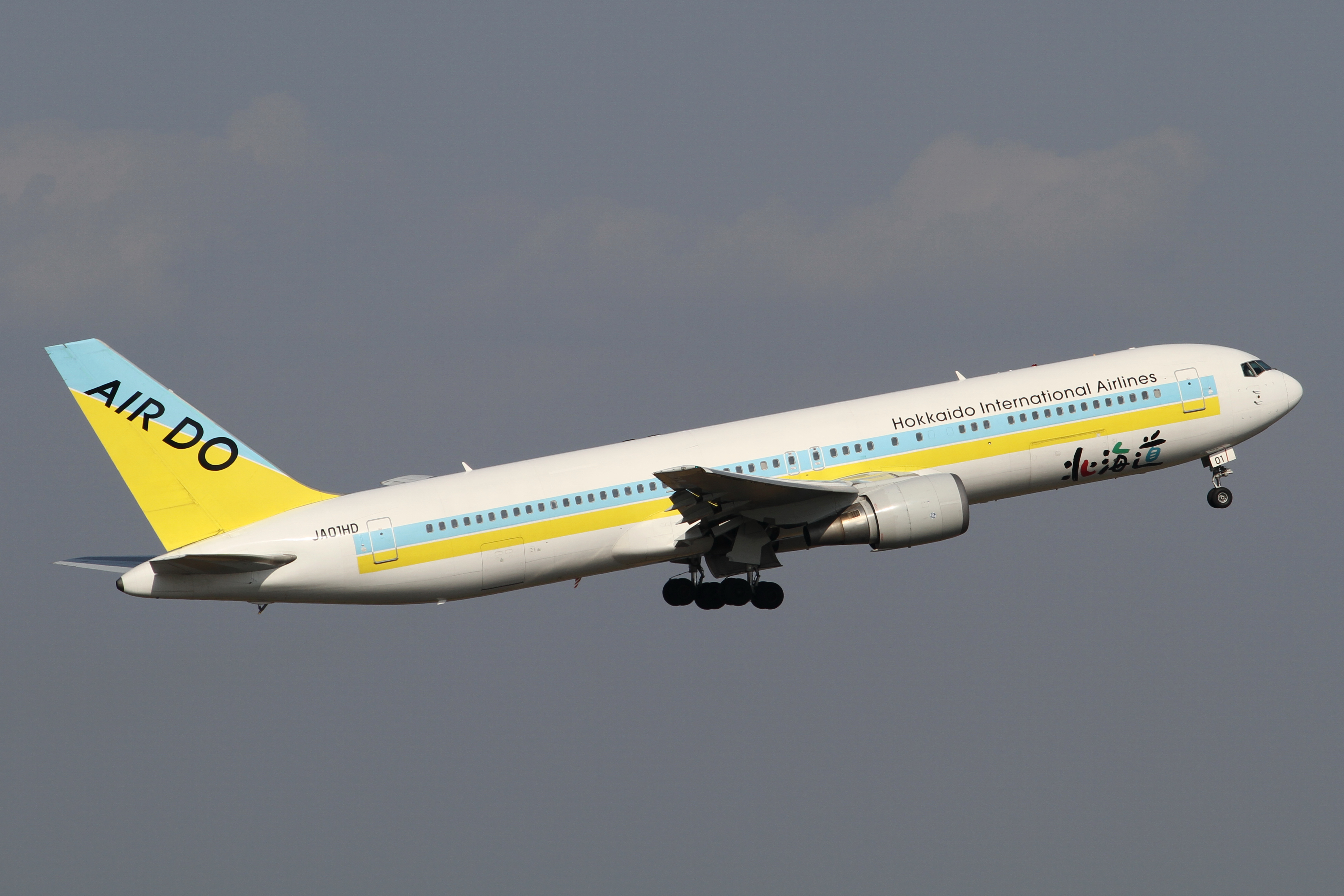 Tokyo International Airport, Boeing 767-33A/ER, c/n:28159, Hokkaido International Airlines